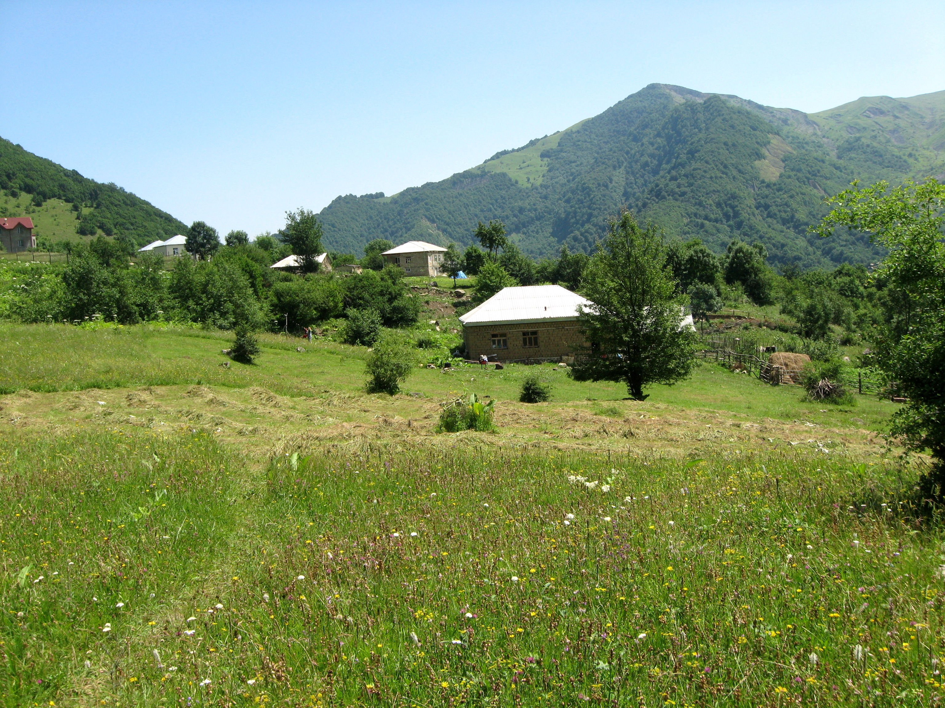 Nature of Azerbaijan